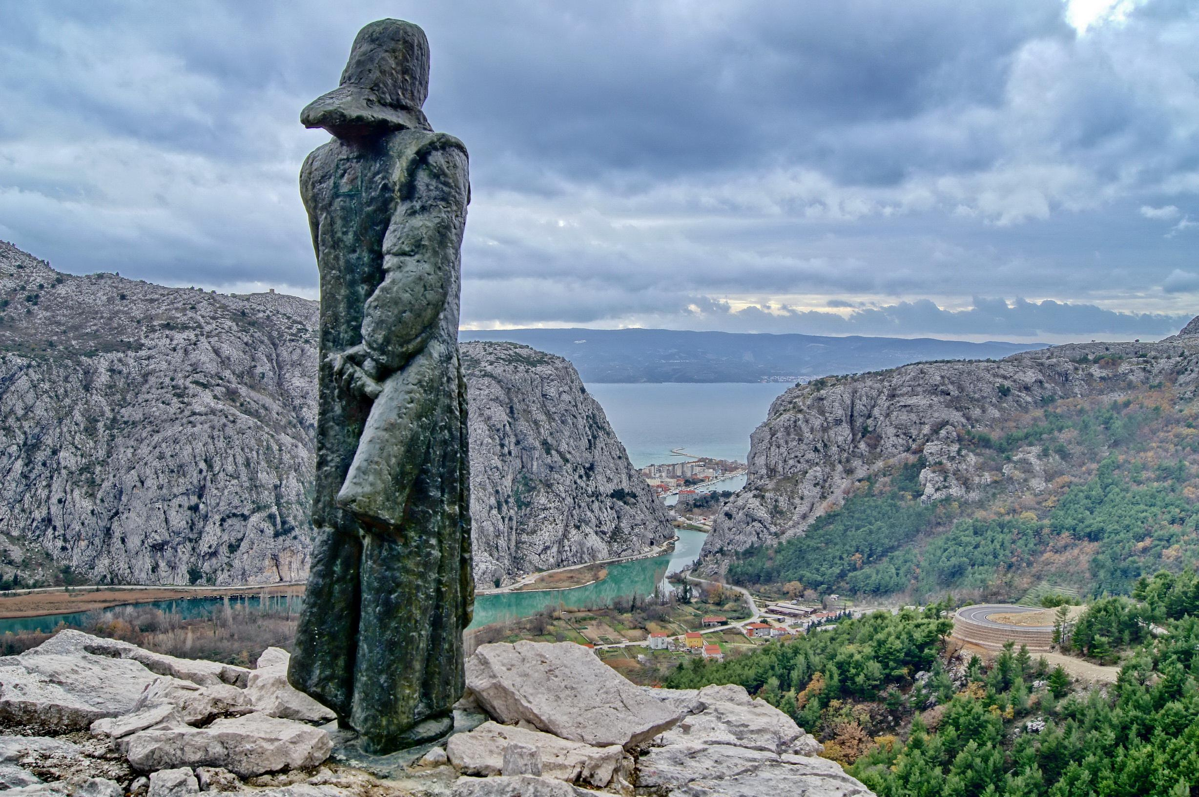 Mile Gojsalića; Statue by Ivan Meštrović, at Omiš, 2011-12-16